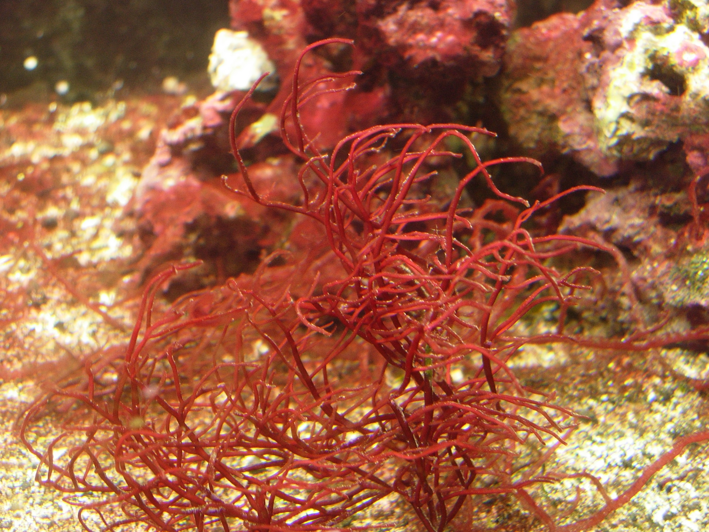 Photographed by Eric Moody (myself)